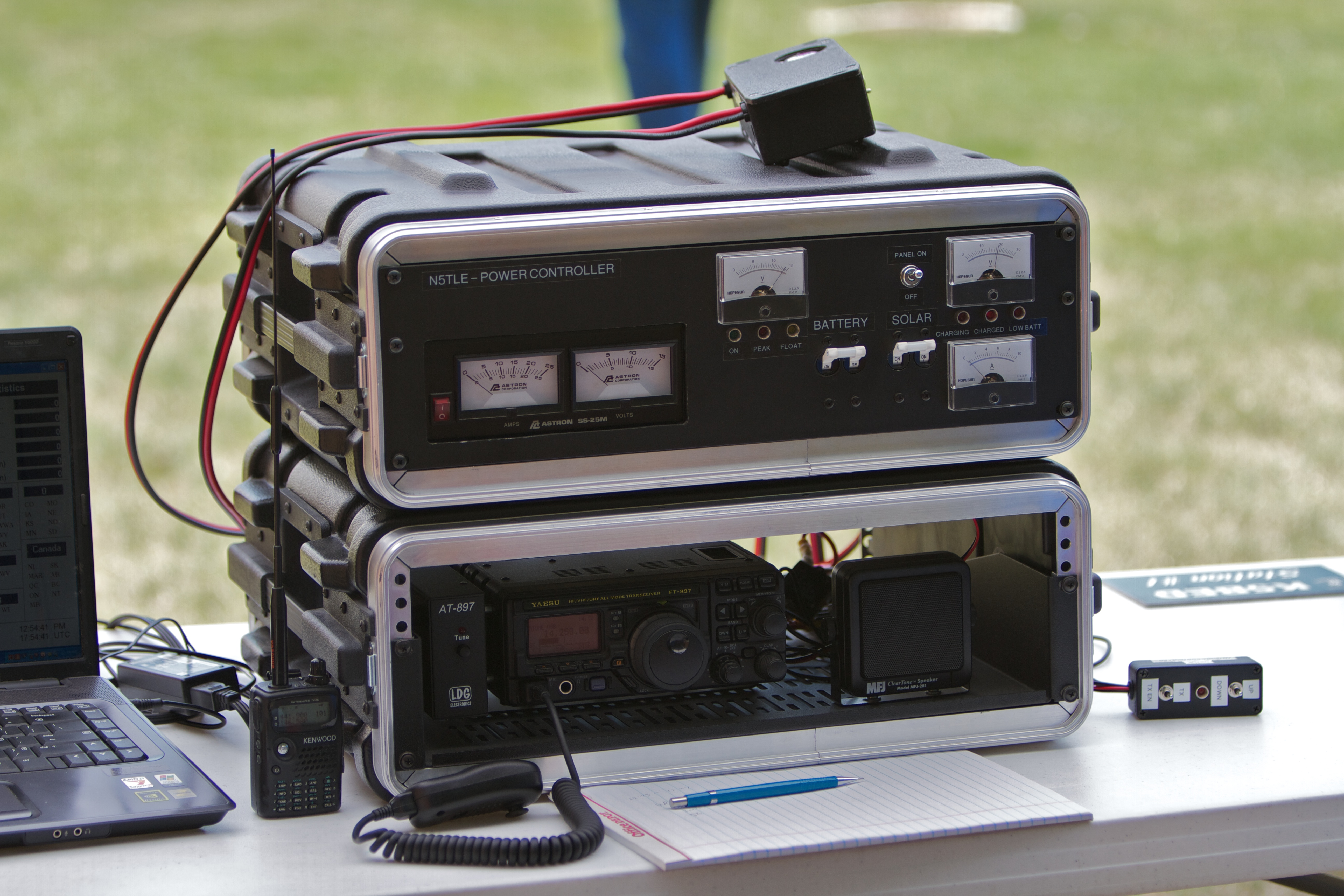 Bedford Amateur Radio Club, ARRL Field Day 2012.